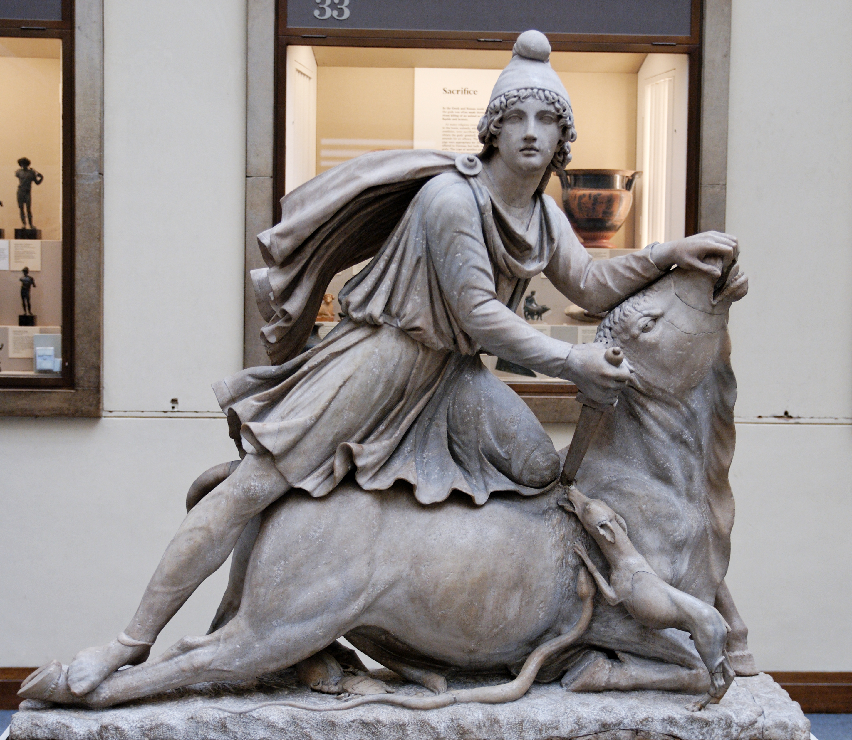 Tauroctony: Mithras slaying the bull.